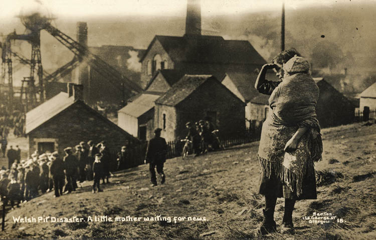 Thirteen year-old Agnes May Webber waiting for news with her baby sister